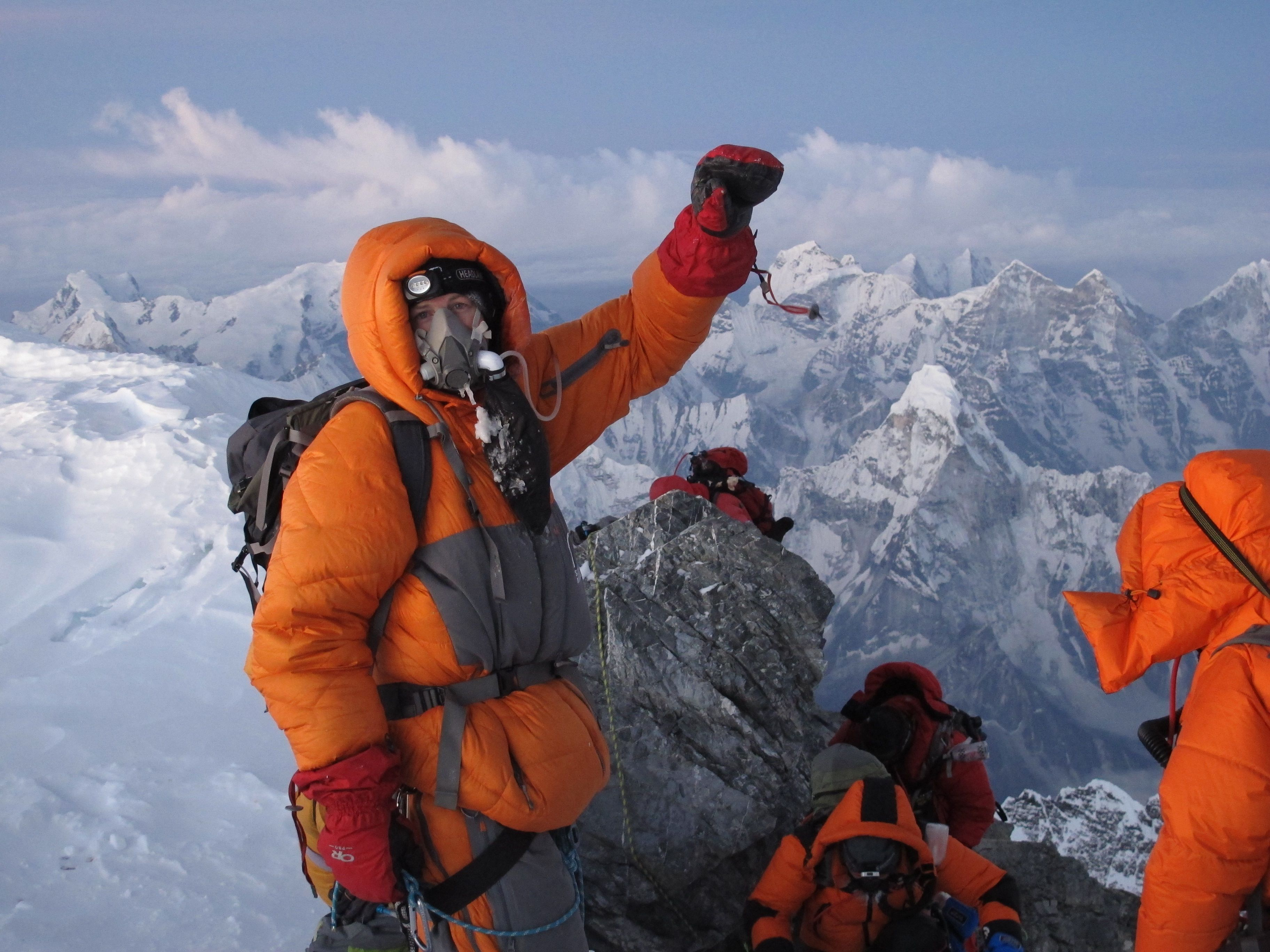 Jon Kedrowsk on Everest, May 2012